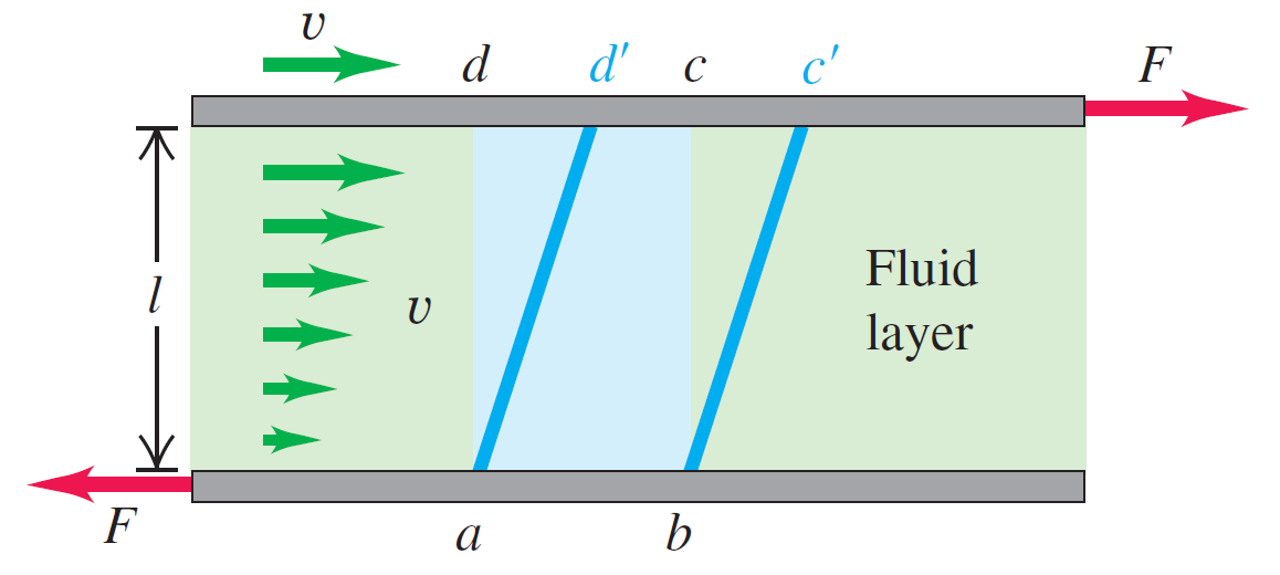 A picture of the viscosity experiment apparatus. This picture labels all of the necessary variables and quantities to measure the viscosity of a fluid.